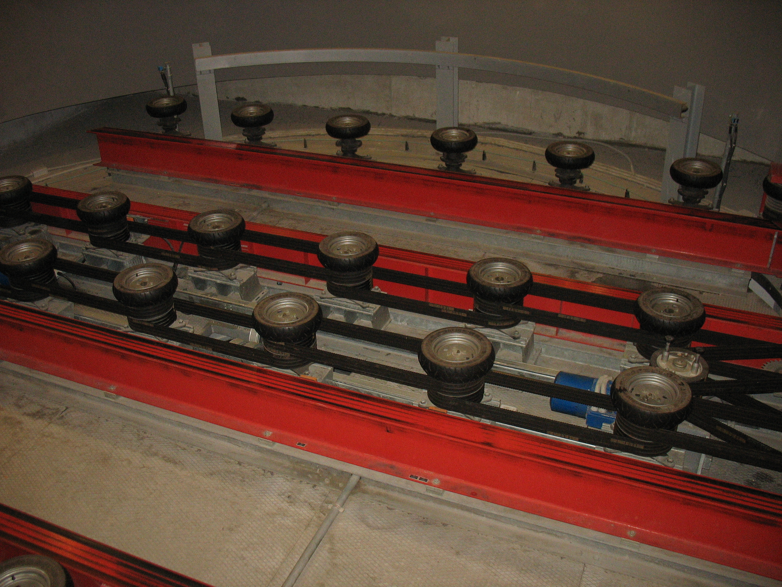 People mover "Minimetro" in Perugia (Italy)